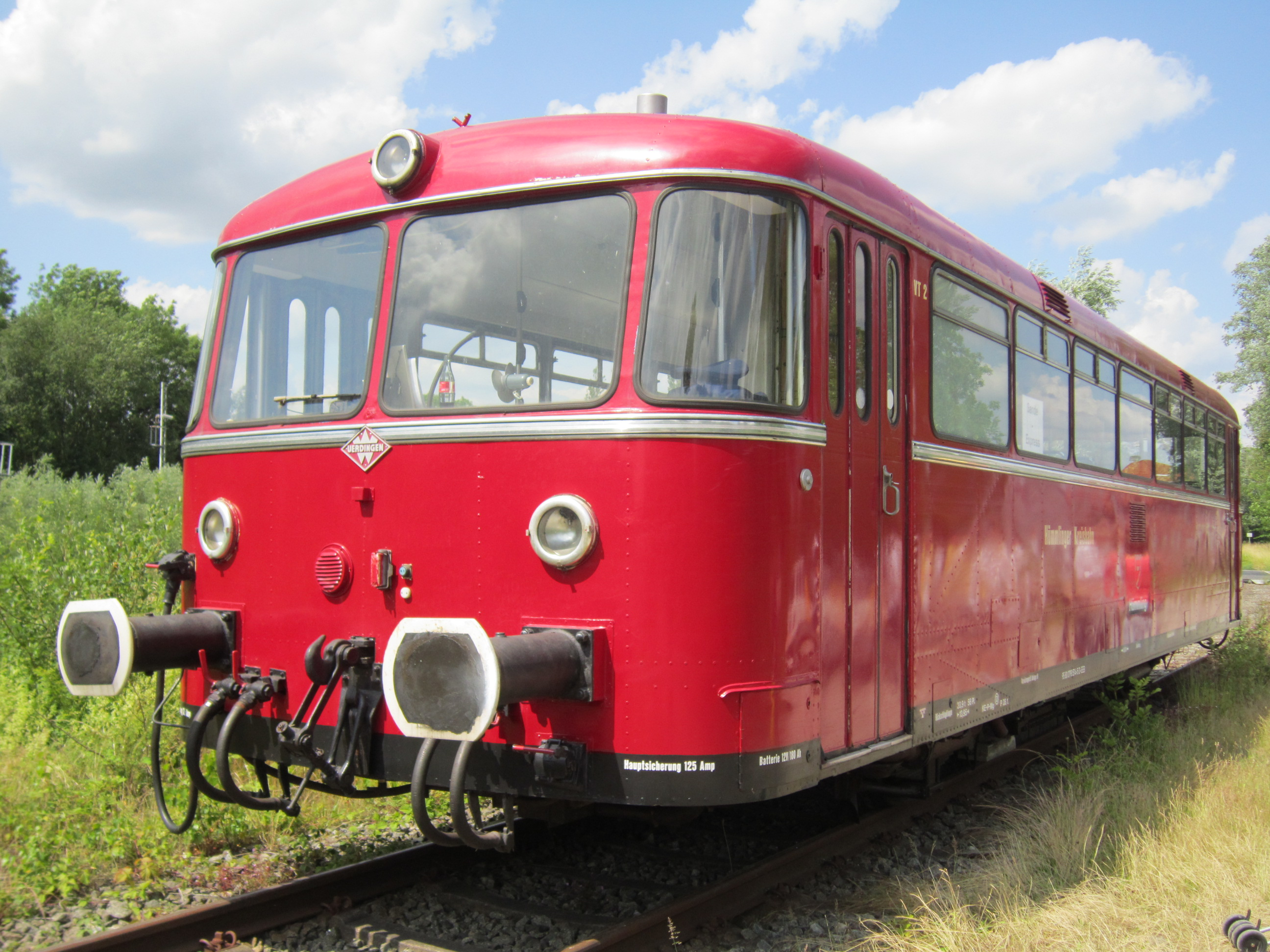 "Schienenbus" oft the former "Hümmlinger Kreisbahn" in Sande (Friesland, Lower Saxony) before leaving to Wilhelmshaven's "Großer Hafen"